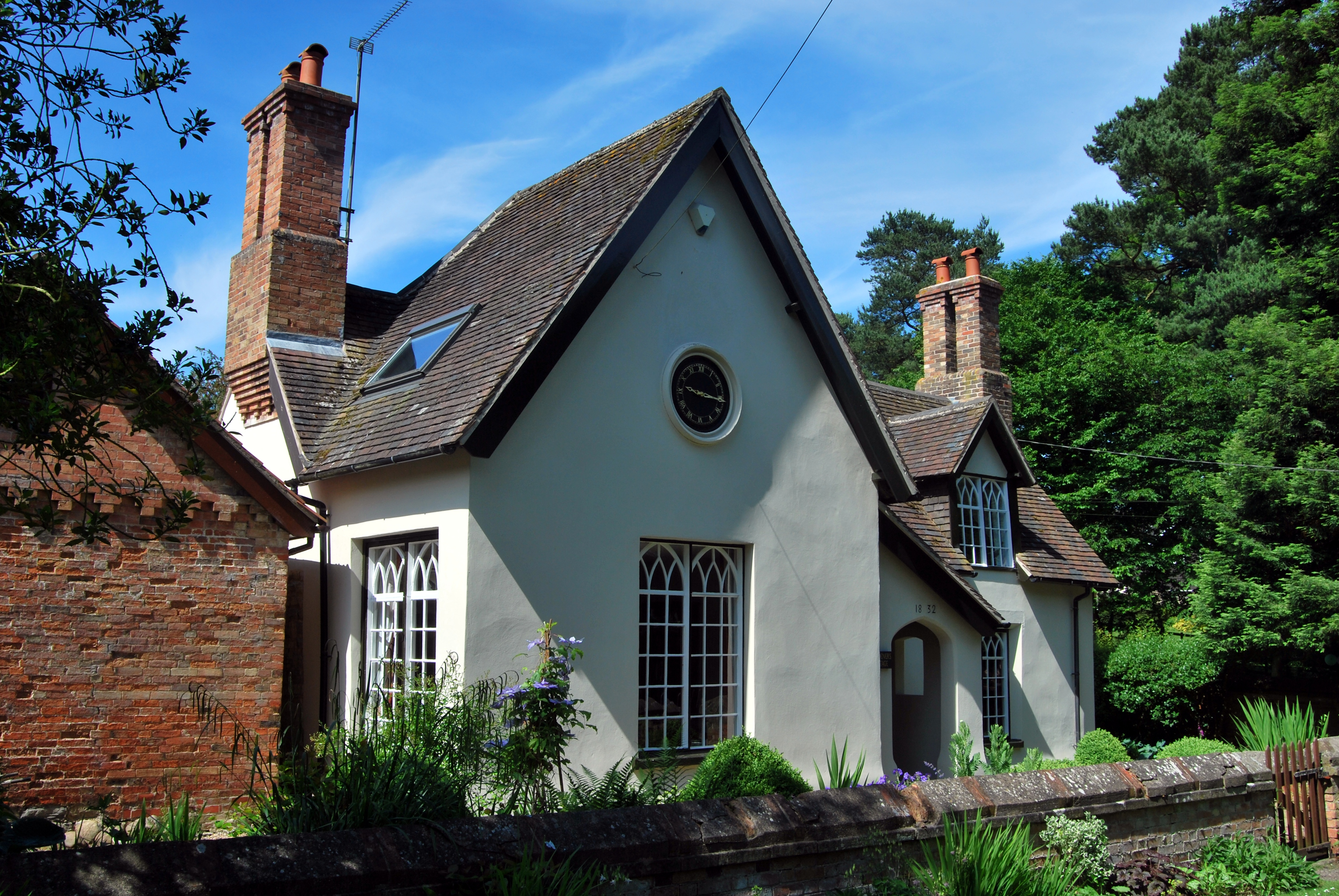 Widmerpool, Gardeners Cottage